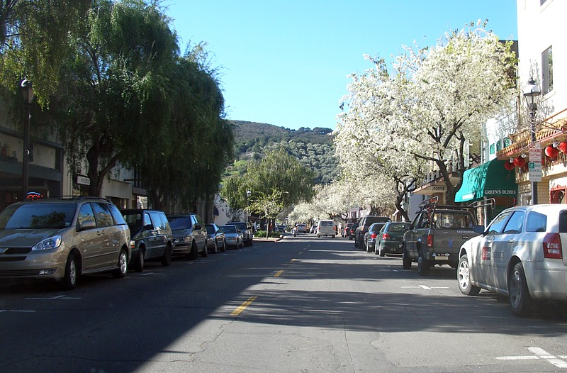 Main Street in downtown Martinez.